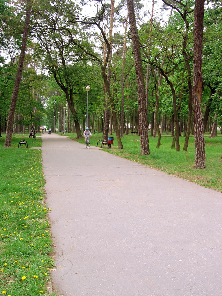 City of Ostroleka (Poland), the town park.